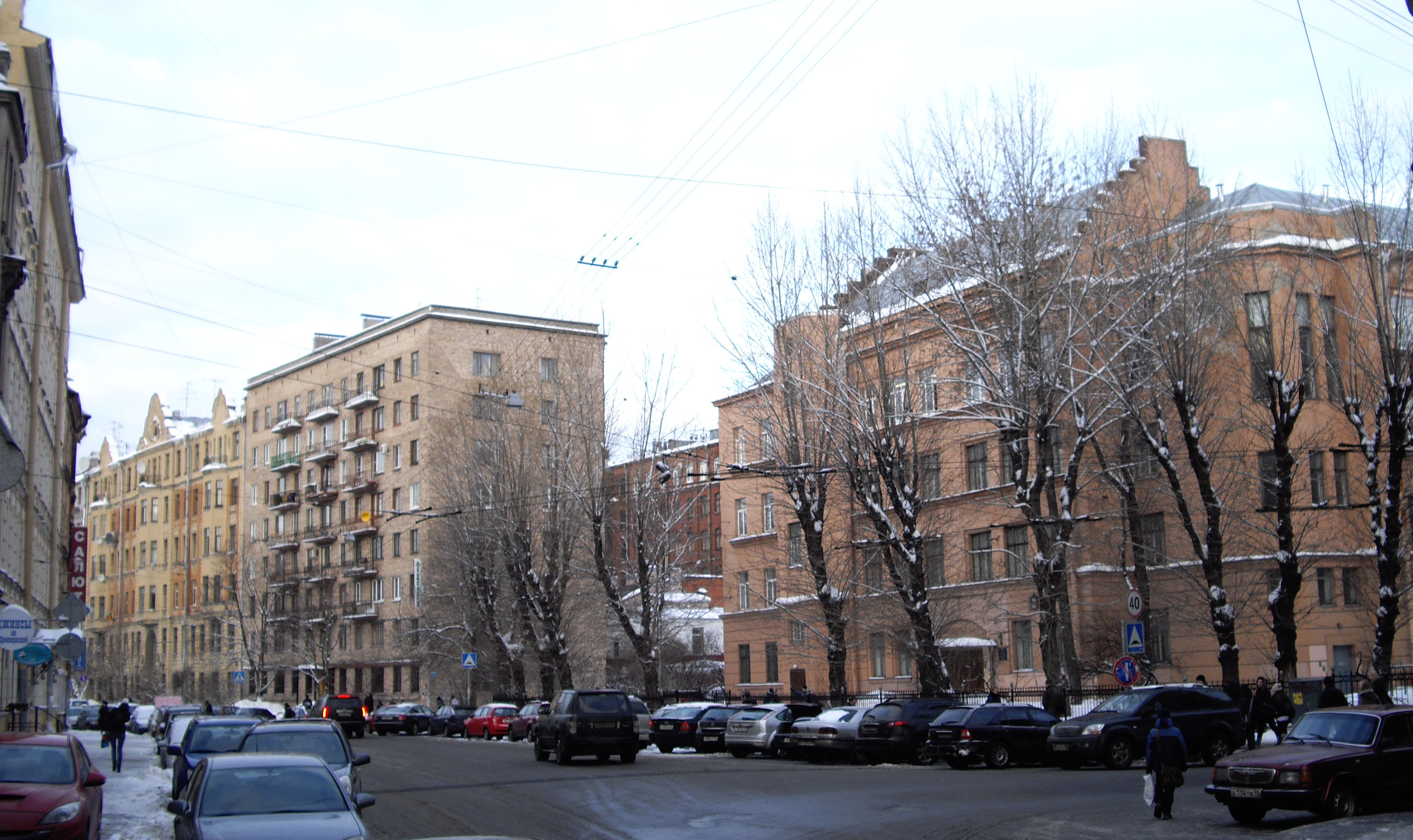 Kronverkskaya Street at the corner of Bolshaya Monetnaya Street (Saint-Petersburg, Russia).